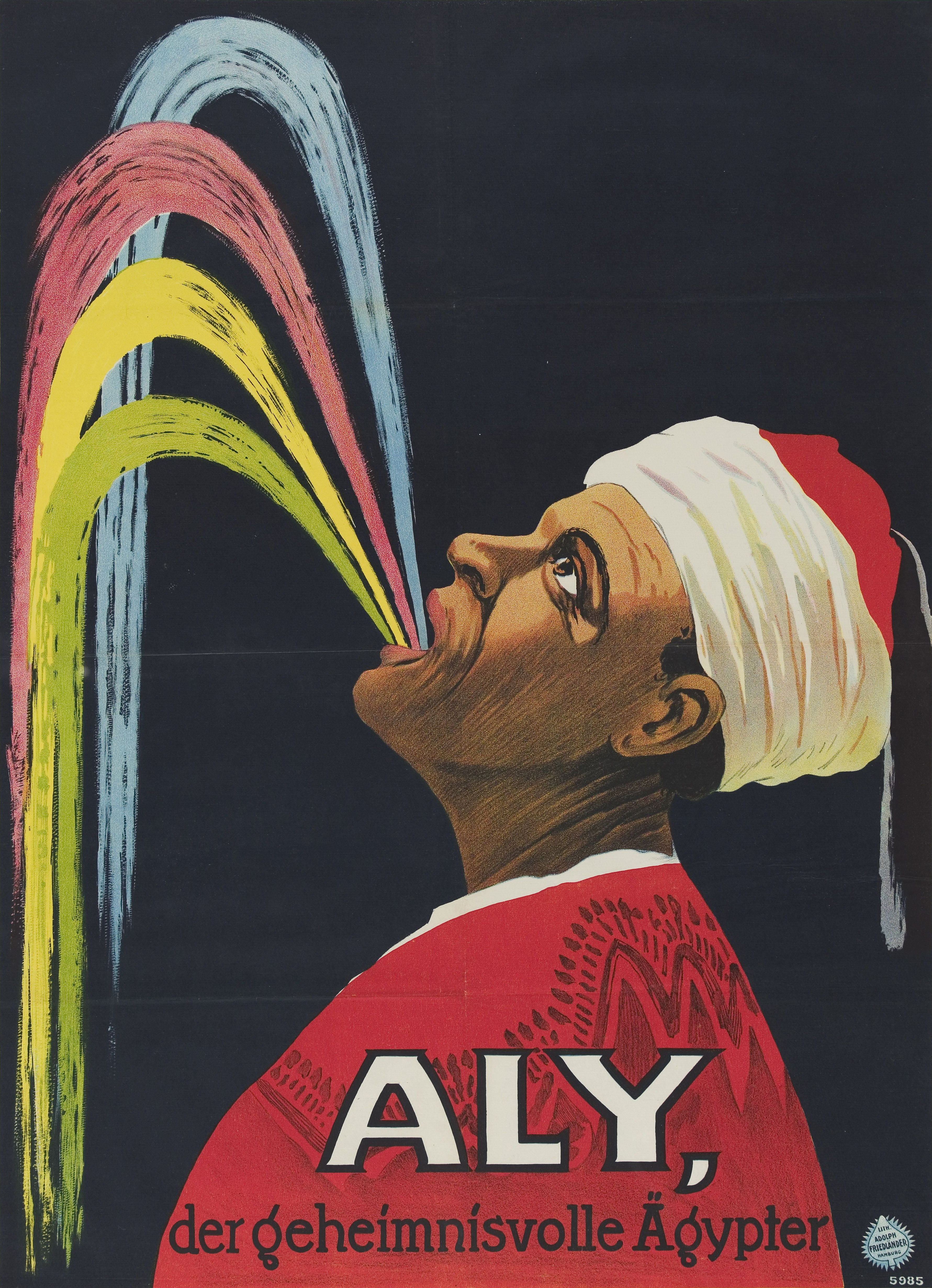 Lithograph poster by Adolph Friedländer's company depicting an artist's impression of Hadji Ali's performance of water spouting: the caption translates to "Aly, the Mysterious Egyptian".